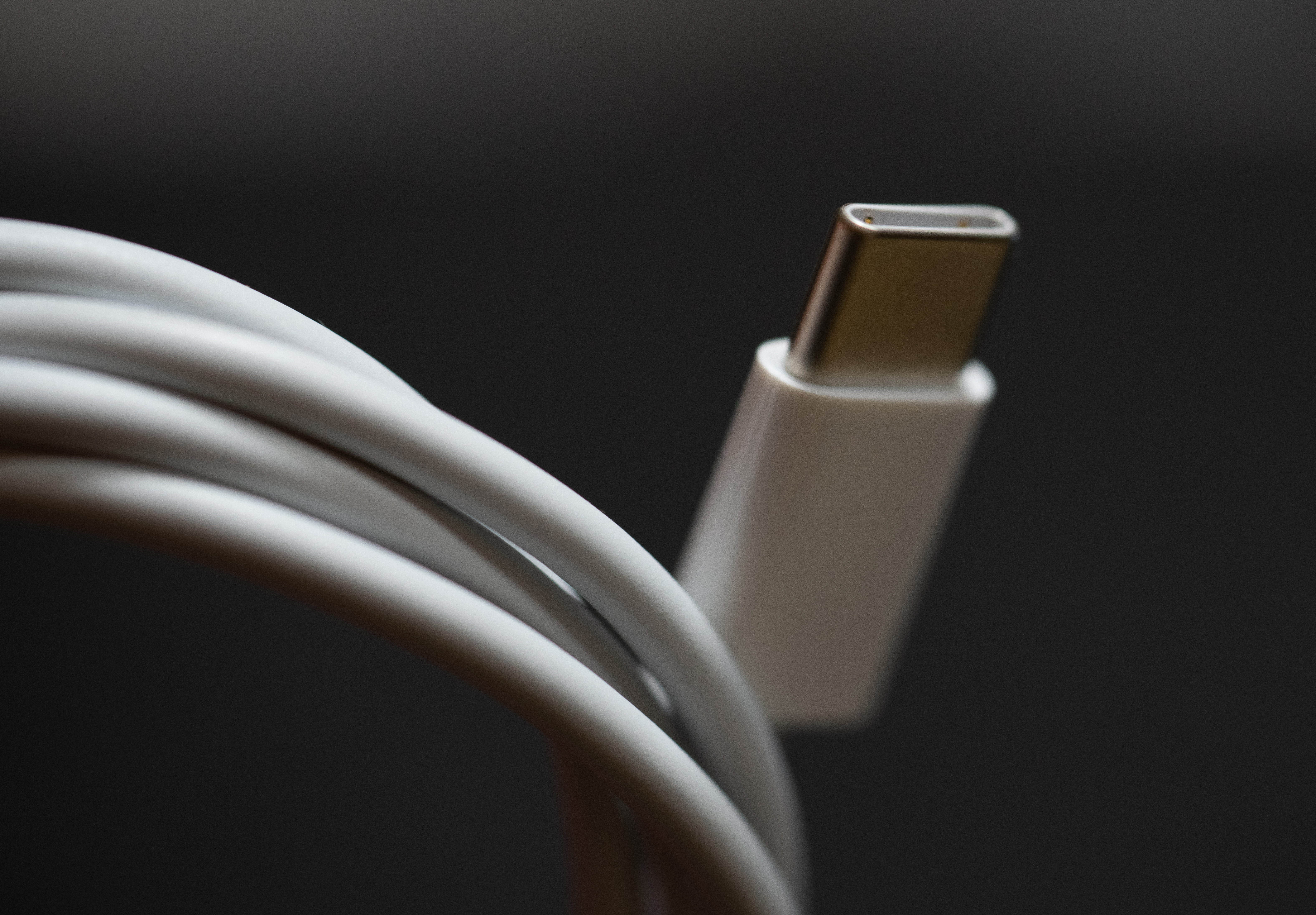 A USB Type-C cable plug for the Apple MacBook Pro, a white cord. The USB-C standard has a reversible connector.